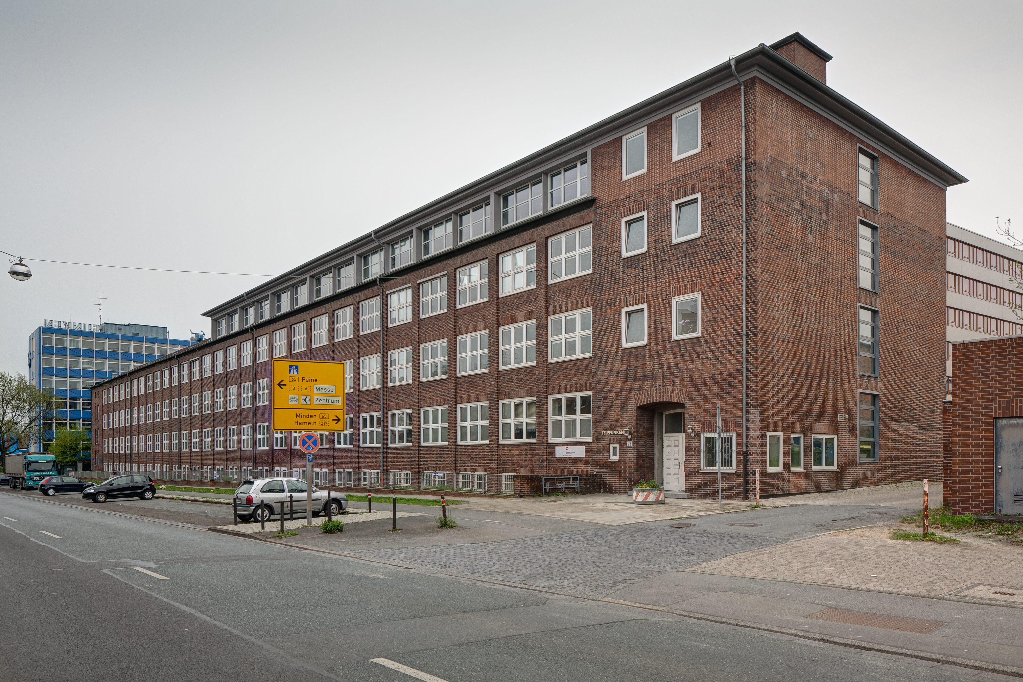 Former plant of "Huth-Apparatefabrik" located at Goettinger Chaussee 76 in Ricklingen district, Hanover, Germany.